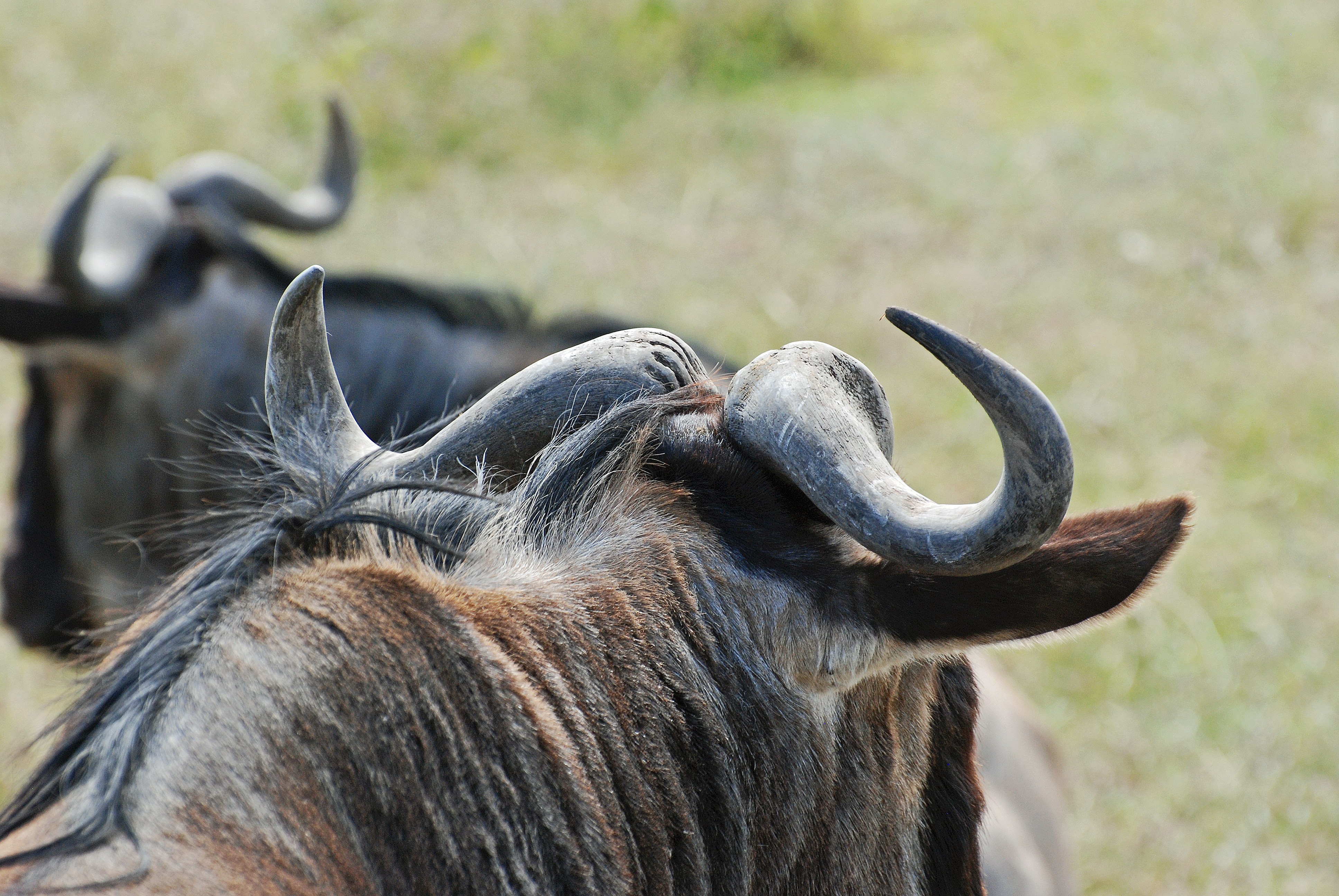 The blue Wildebeest (Connochaetes taurinus), also called the common wildebeest or the white-bearded wildebeest, is a large antelope and one of two species of wildebeest